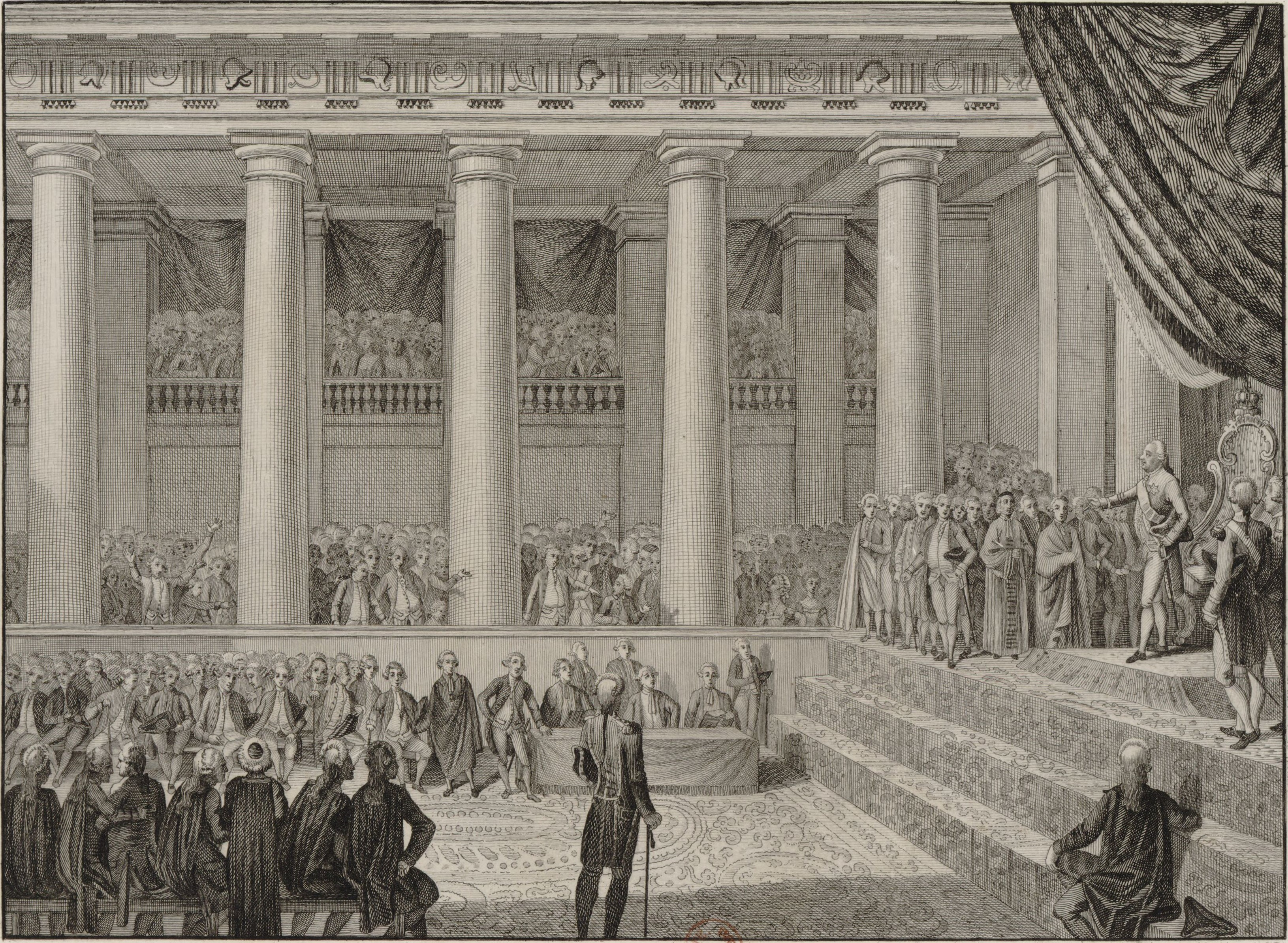 King Louis XVI declares war on his brother-in-law Francis, King of Hungary and Bohemia, in the Legislative Assembly (France), commencing the War of the First Coalition. 20 April 1792.